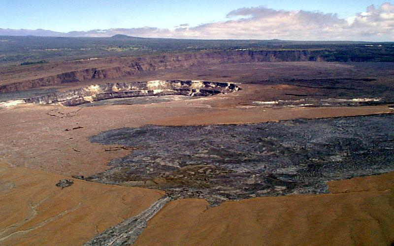 Caldera of Kīlauea Volcano, Hawaiʻi, with Halemaʻumaʻu crater